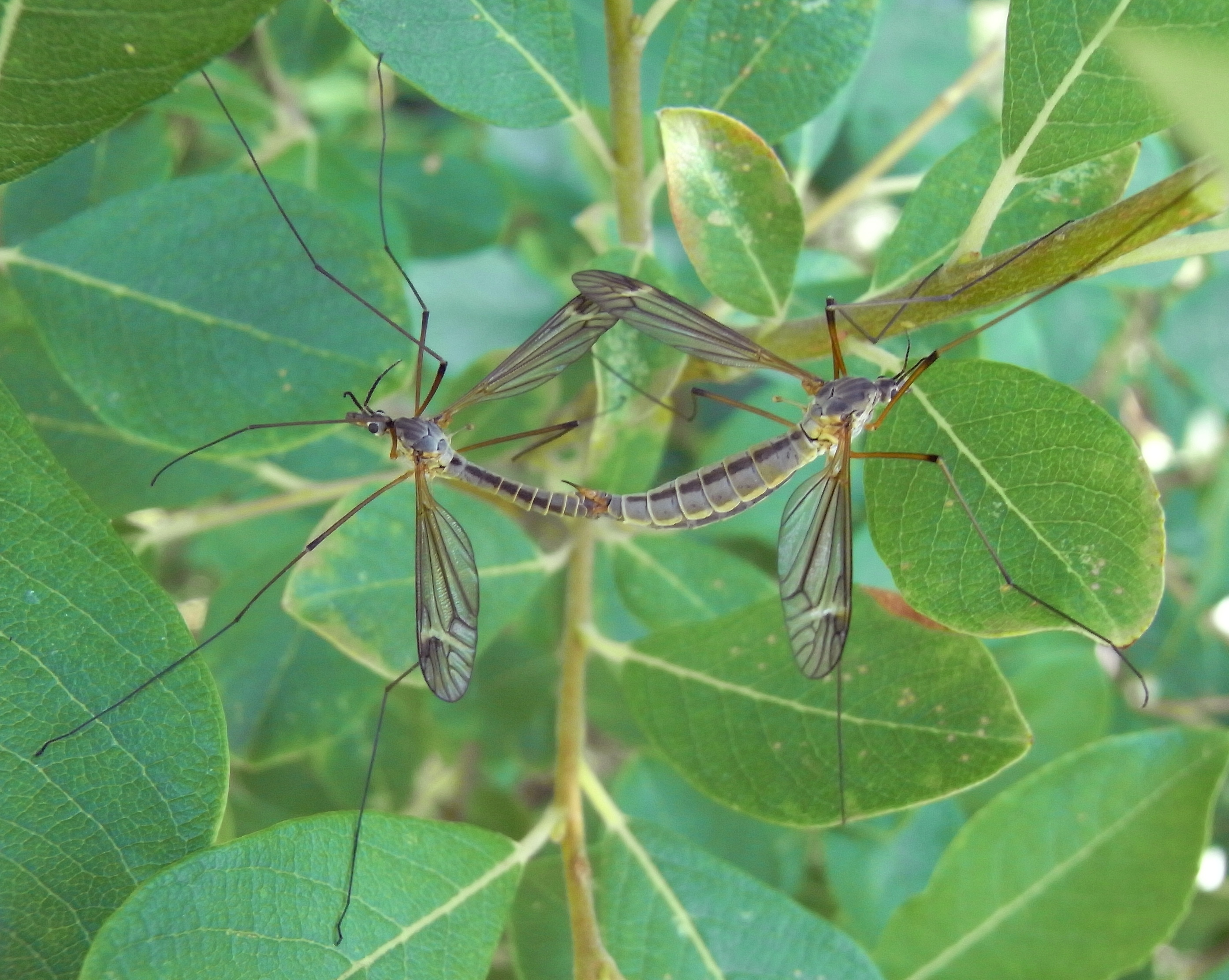 Crane flies (genus Tipula) mating.